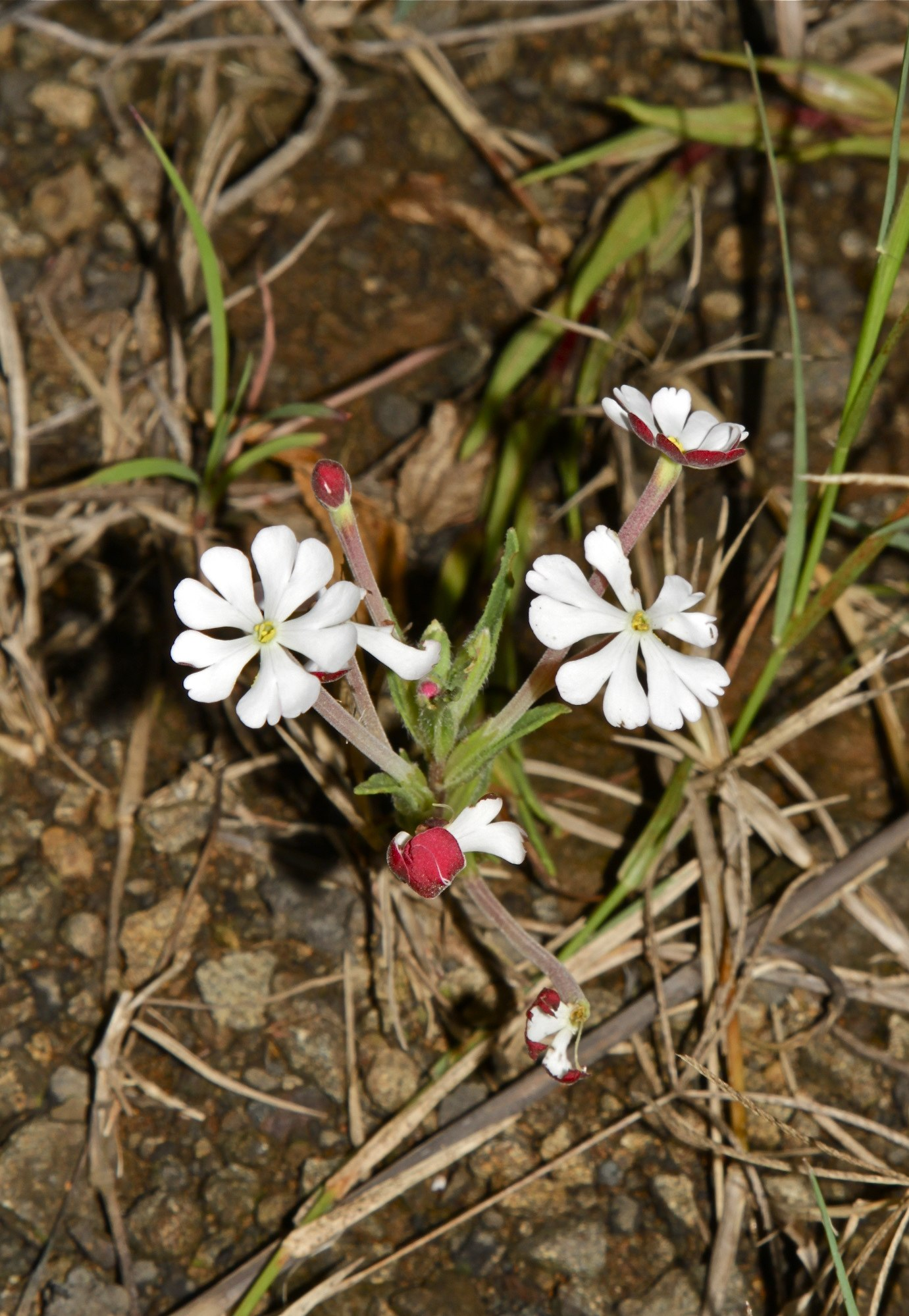 South Africa. Royal Natal NP